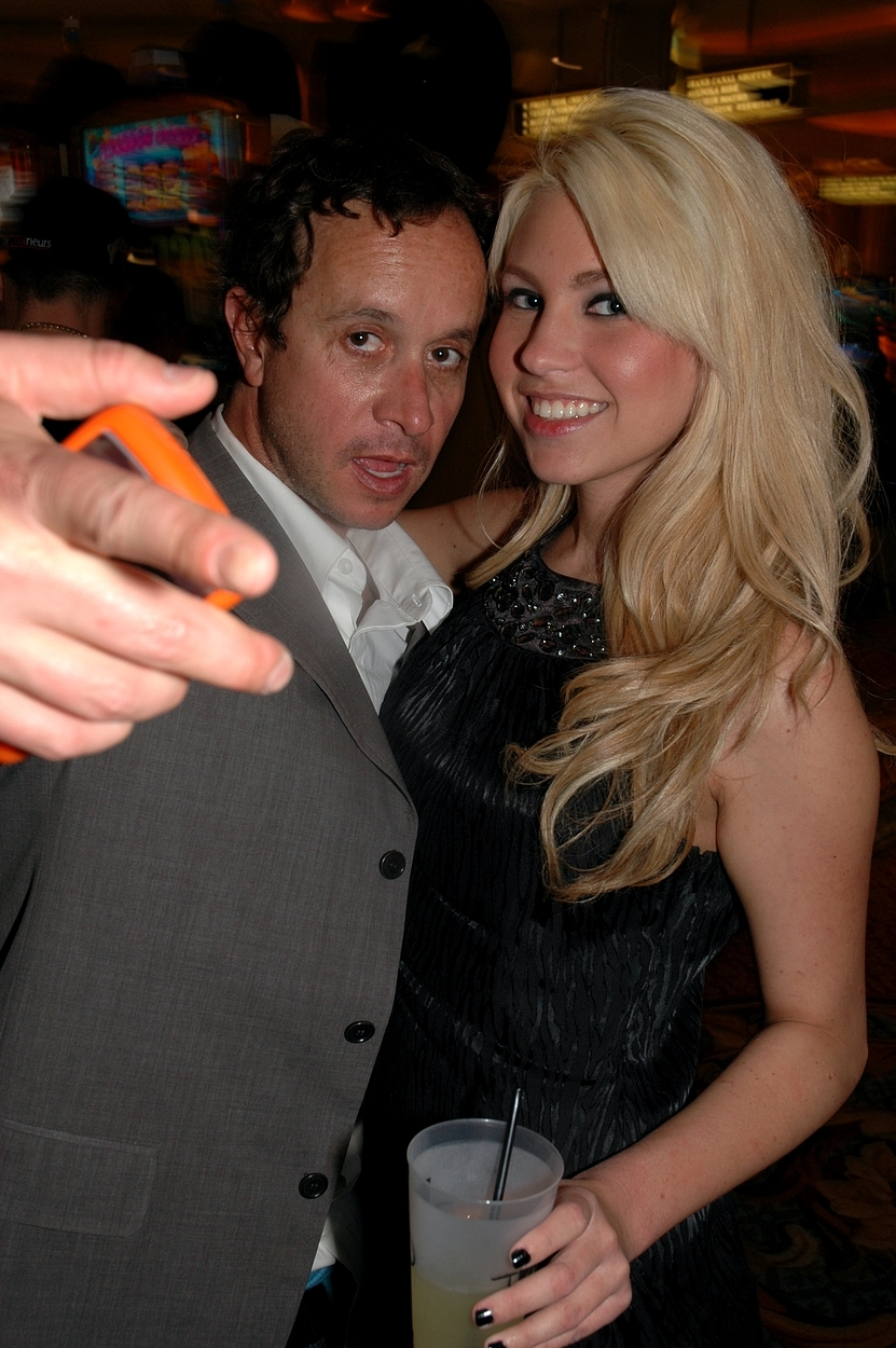 Pauly Shore & Jordanna Taylor in Las Vegas, NV